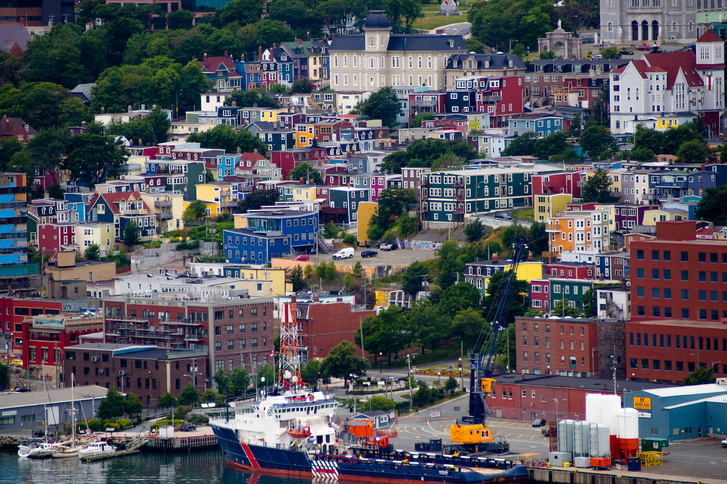 I didn't get that quintessential shot of the colourful row houses that's seen so often in those Newfoundland tourism commercials so I had to settle with a shot from afar. Looking at St. John's Jelly Bean Row and waterfront from Signal Hill.